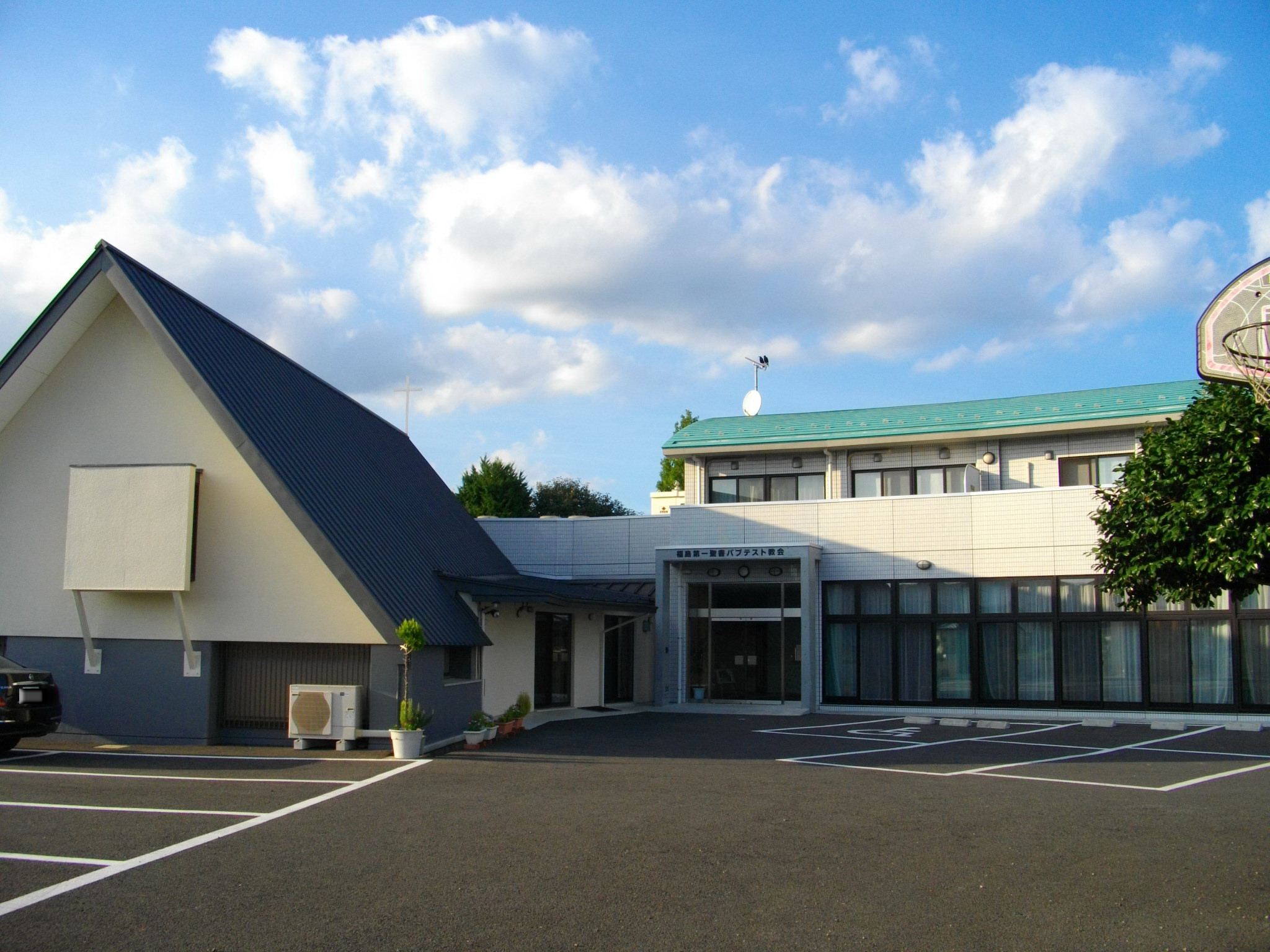 Fukushima First Biblical Buptist Church Ōno-chapel (Location:Ōkuma-town Futaba-gun Fukushima-pref JAPAN)